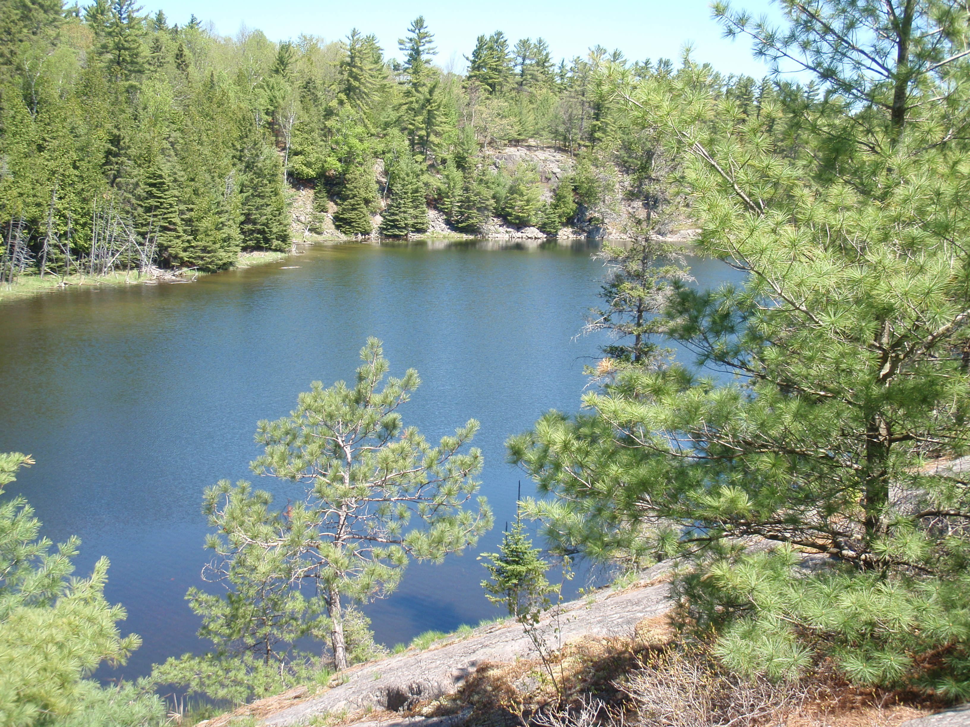 Minow Lake